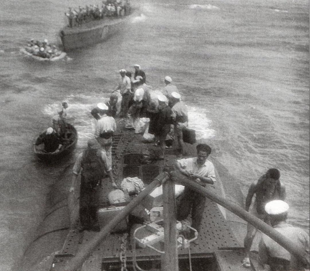 The evacuation of the Dutch submarine O 19 after it had run aground on Ladd reef at the July 8th 1945